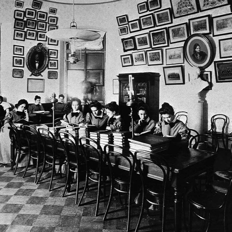 В читальне педагогических классов, конец XIX века